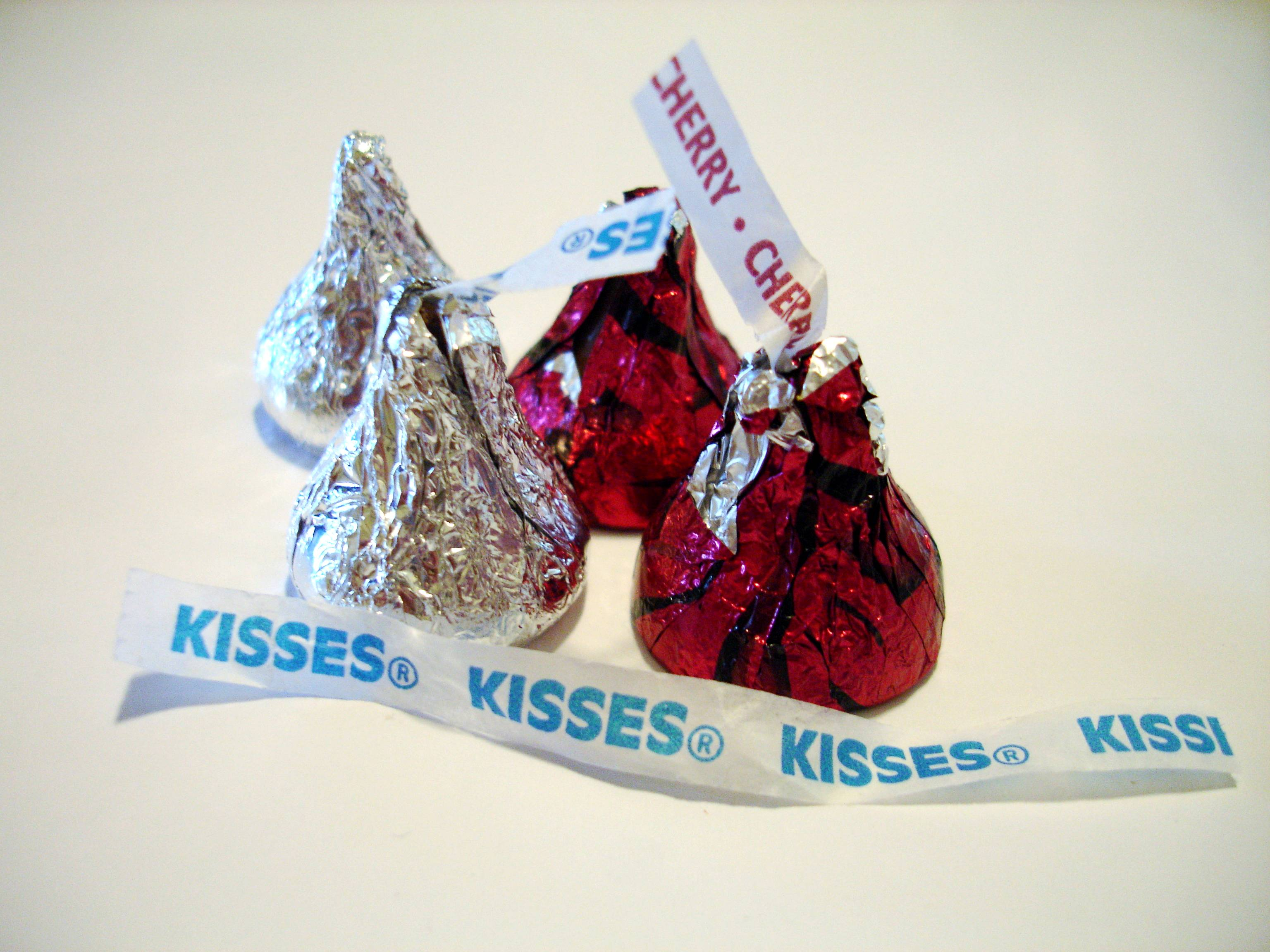 An arrangement of HERSHEY'S KISSES brand products. Two KISSES Milk Chocoltes and two KISSES Chocolates Filled with Cherry Cordial Creme.